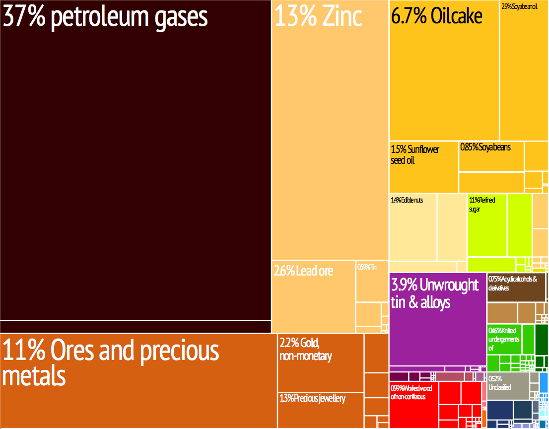 Export Trading Treemap. From MIT/Harvard Atlas of Economic Complexity